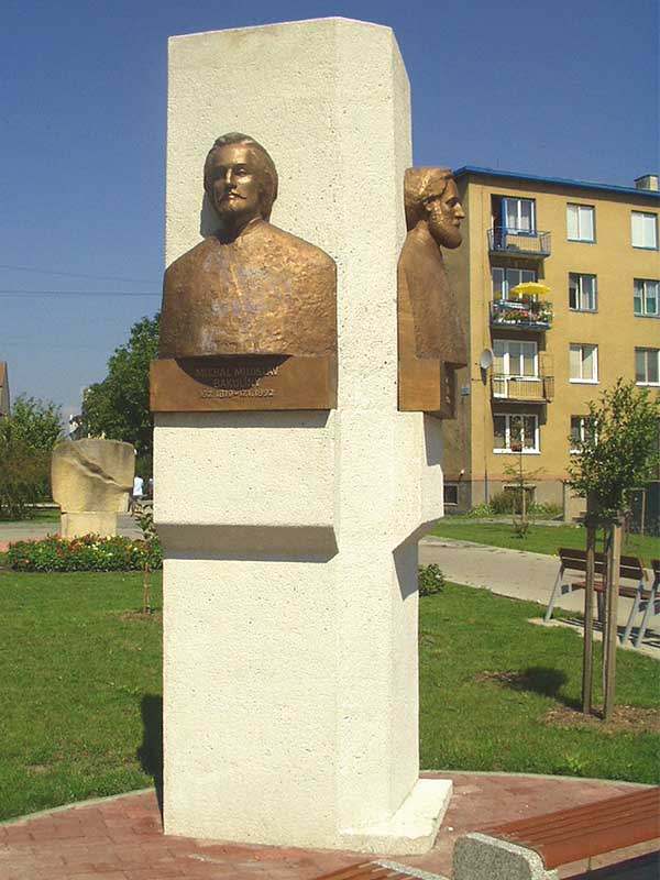 A statue of Michal Miloslav Bakuliny.